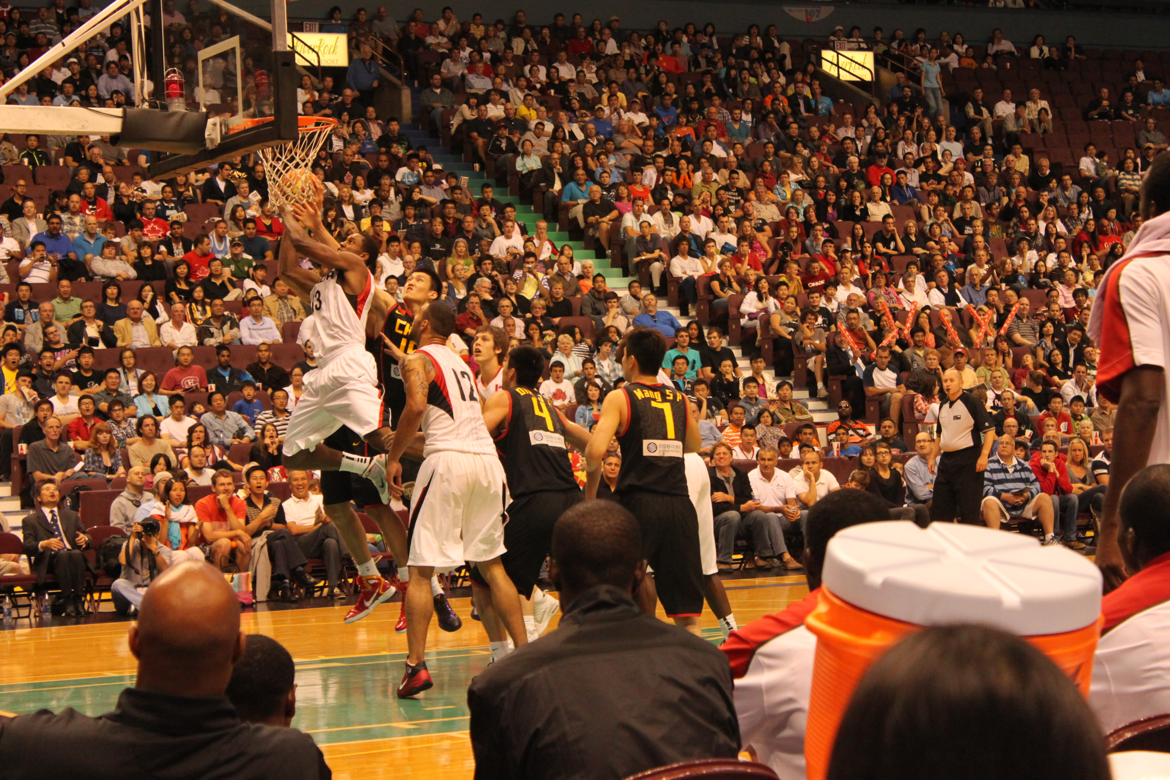 Canada killed China in this match at the Rogers Arena in Vancouver, which ended 86 to 62. They wouldn't let me go in with my tele lens (I had to leave it at customer services), so this is all I could get with my cheap 17-55. Still, they said compact cameras were ok, which I believe is a stupid contradiction, with so many compact cameras with big zoom lenses on them these days. If I knew it, maybe I would've brought my compact.